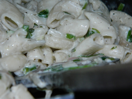 A home-made cheese pepper pasta (macaroni)